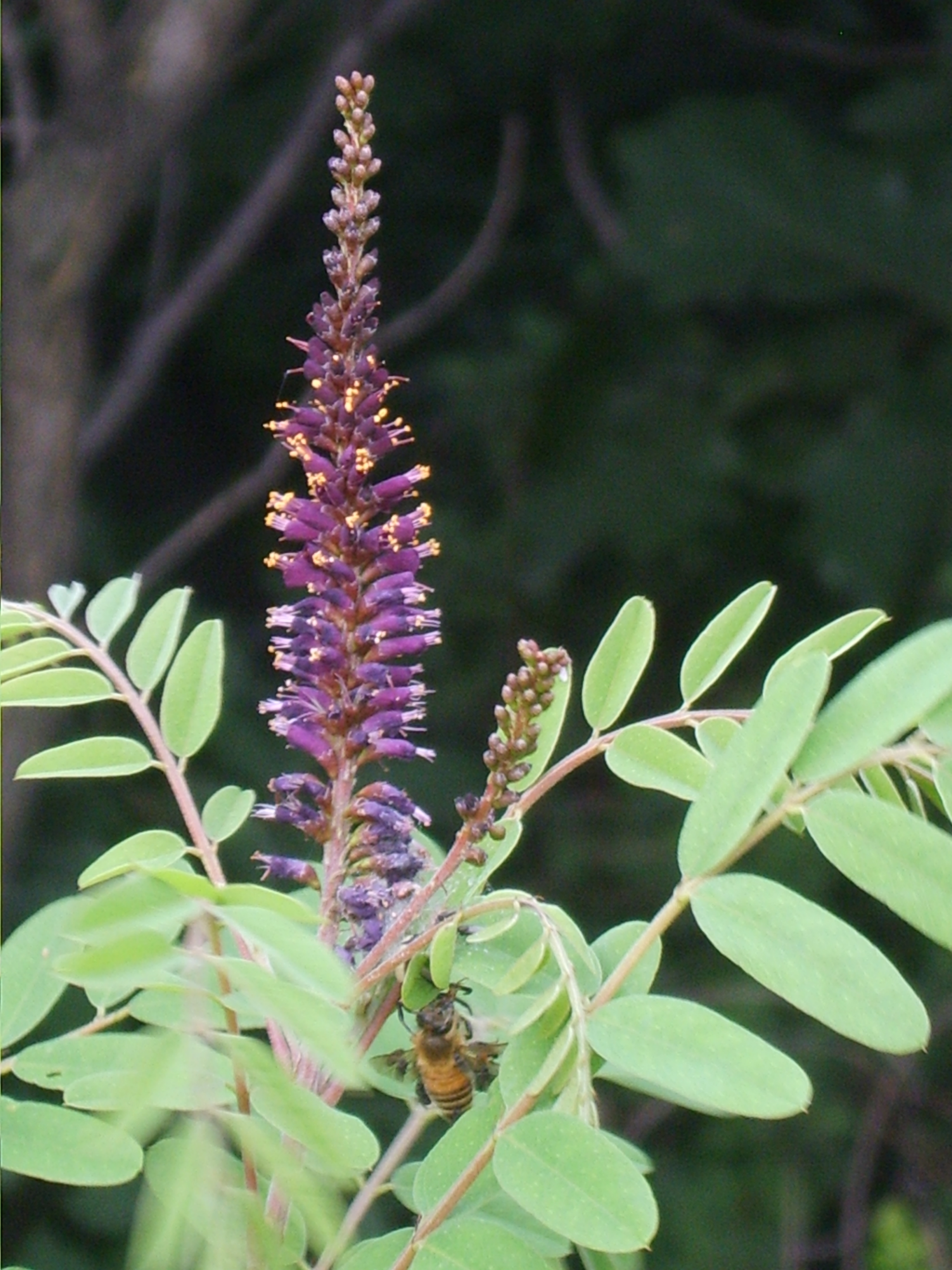 Amorpha fruticosa in Bupyung, Korea